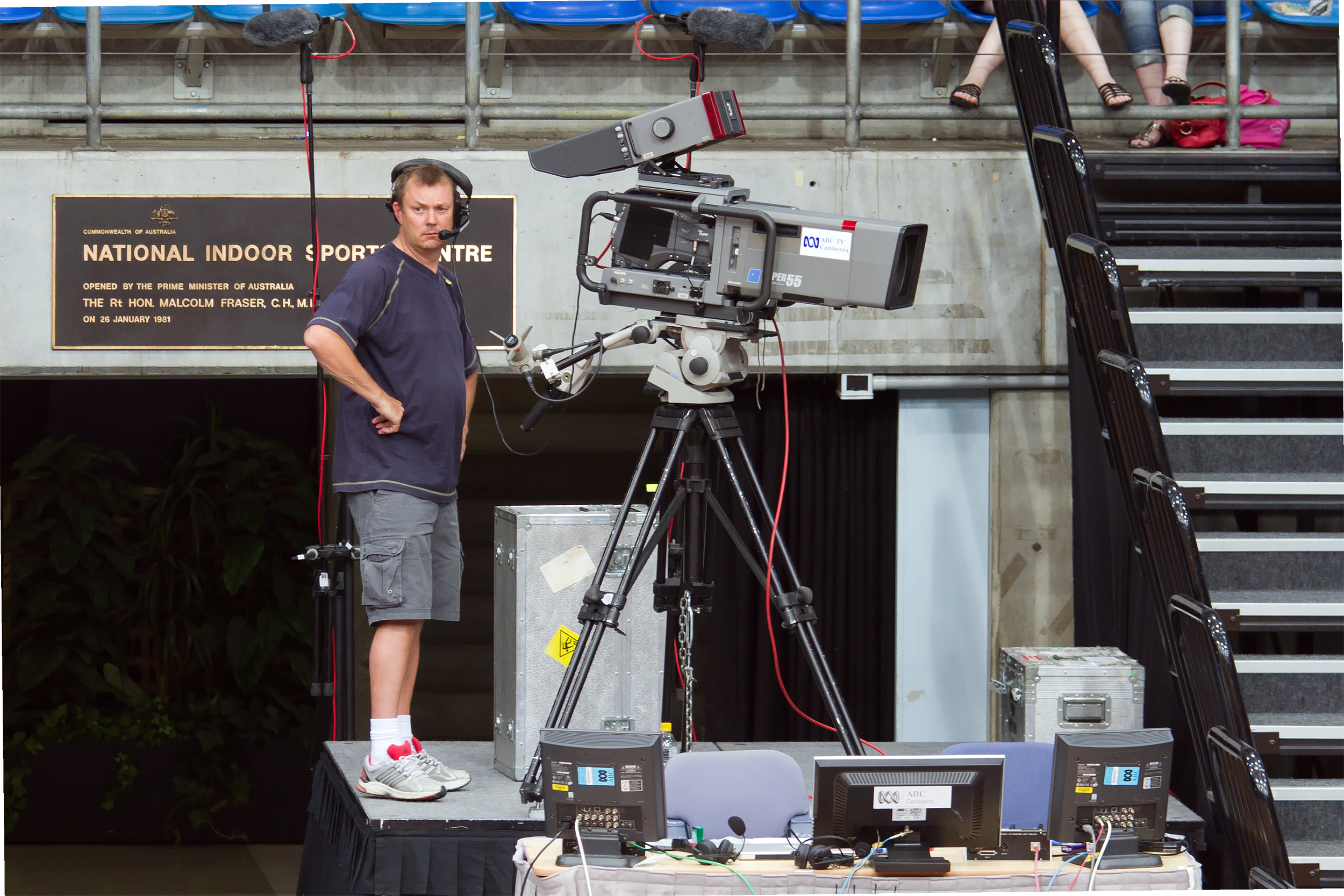 ABC News camera and operator at Canberra Capitals vs Logan Thunder, Australian Institute of Sport Training Hall, Canberra, Australia